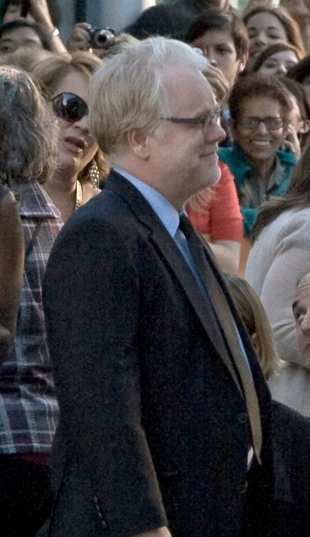 At the premiere of "Moneyball", directed by Bennett Miller, during the Toronto International Film Festival, 2011